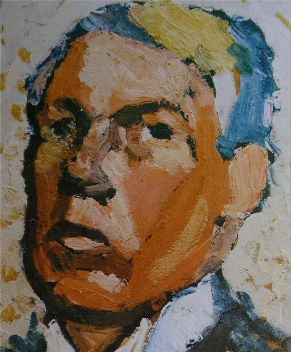 Photo of an oilpainting by Joel Pettersson (died 1937)